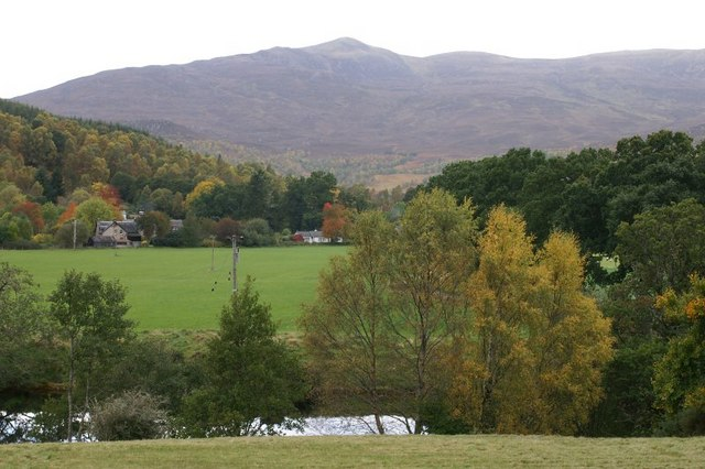 View across Strathglass at Struy Looking NW towards Beinn a Bha'ach Ard.